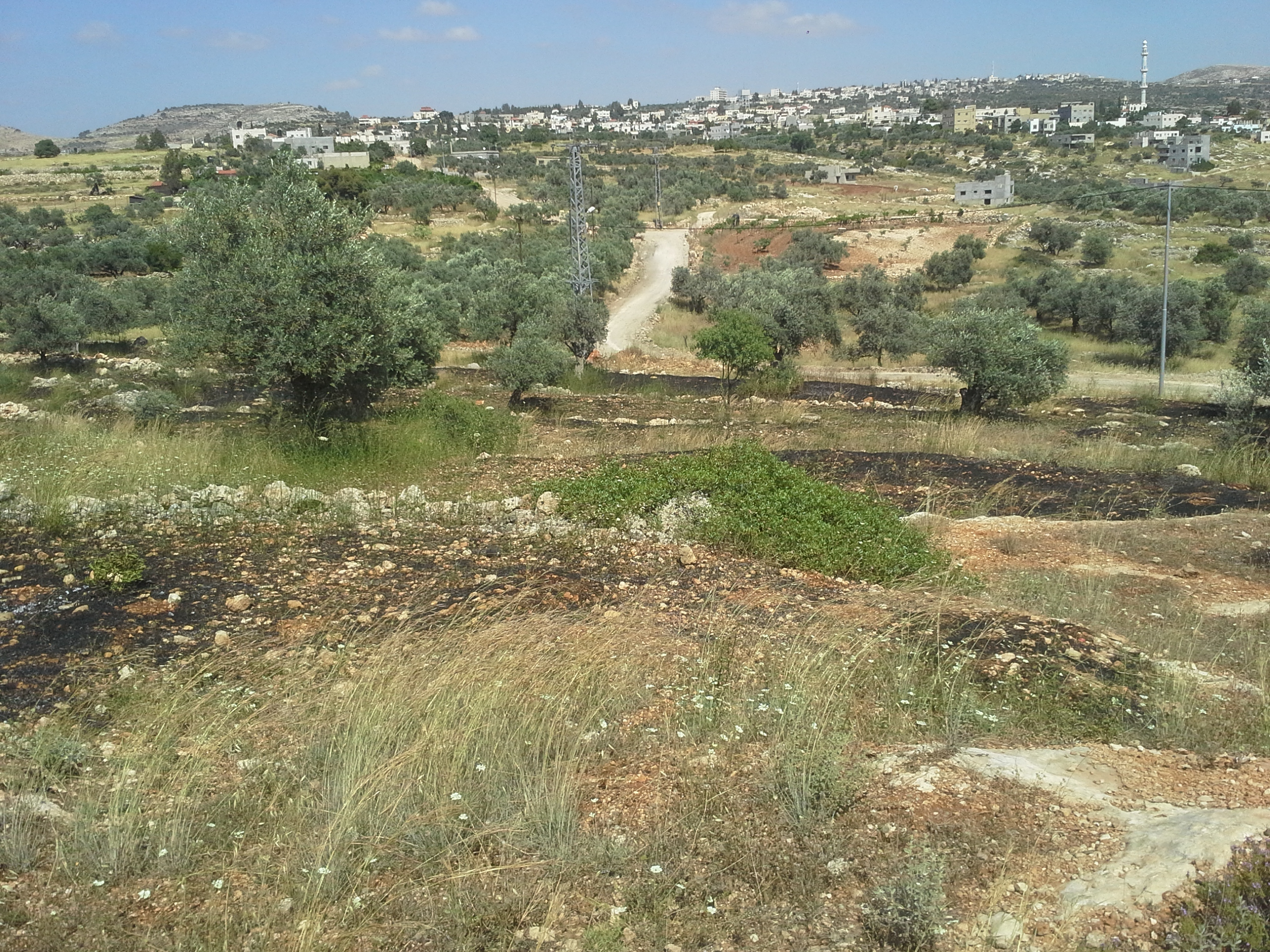 An olive grove torched by the Israeli military in Bil'in, Palestine